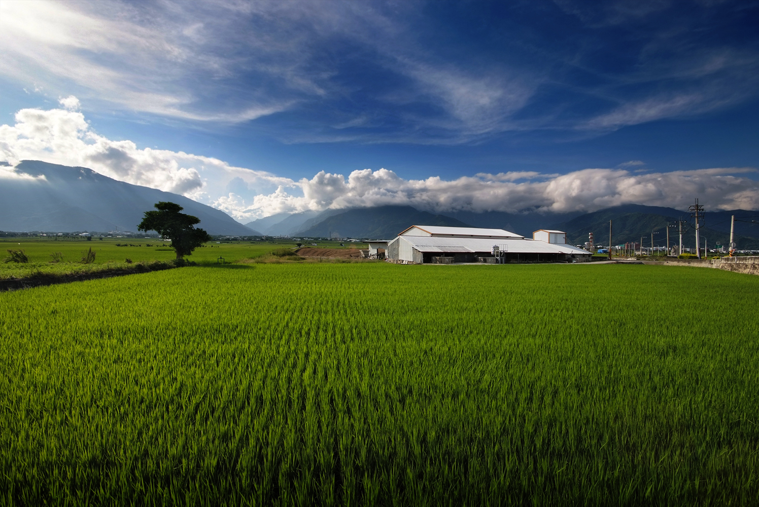 Hualien, Taiwan from my recent archives. Need to take a short break until the next outing. Thank you all for the kind comments on my earlier posts. My sincere apologies that I am unable to respond to every individual as much as I would love to. Time is just not on my side. Have a nice day everyone! Best to view on BLACK.